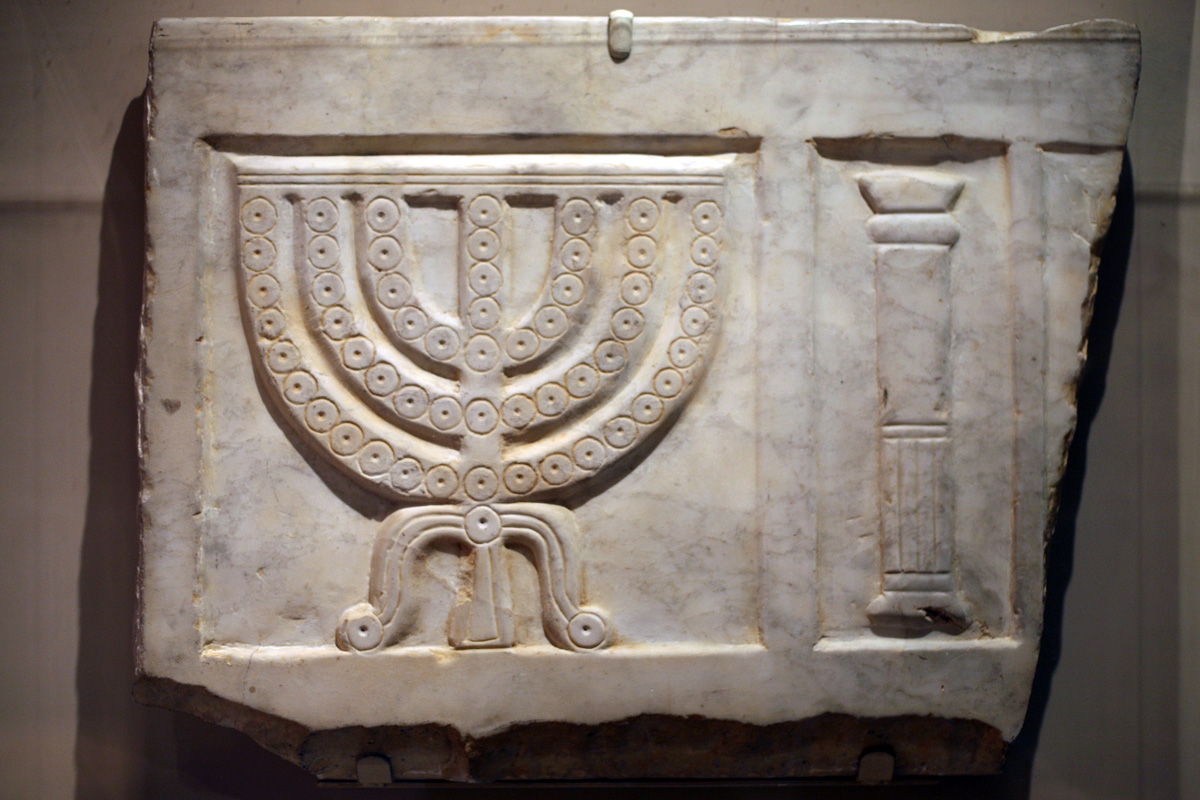 Sarcophagus Fragment Israel (?), 3rd-4th century CE Marble: carved 16 9/16 x 21 7/8 x 2 3/8 in. (42 x 55.6 x 6 cm) The Jewish Museum, New York Gift of Daniel M. Friedenberg, 2002-46 Wikipedia Loves Art at the Jewish Museum (New York City) This photo of item # 2002-46 at the Jewish Museum (New York City) was contributed under the team name "shooting_brooklyn" as part of the Wikipedia Loves Art project in February 2009. Jewish Museum (New York City) The original photograph on Flickr was taken by shooting brooklyn—please add a comment to the original Flickr page whenever a use has been made on Wikipedia or another project. Project galleries on Flickr: this institution, this team